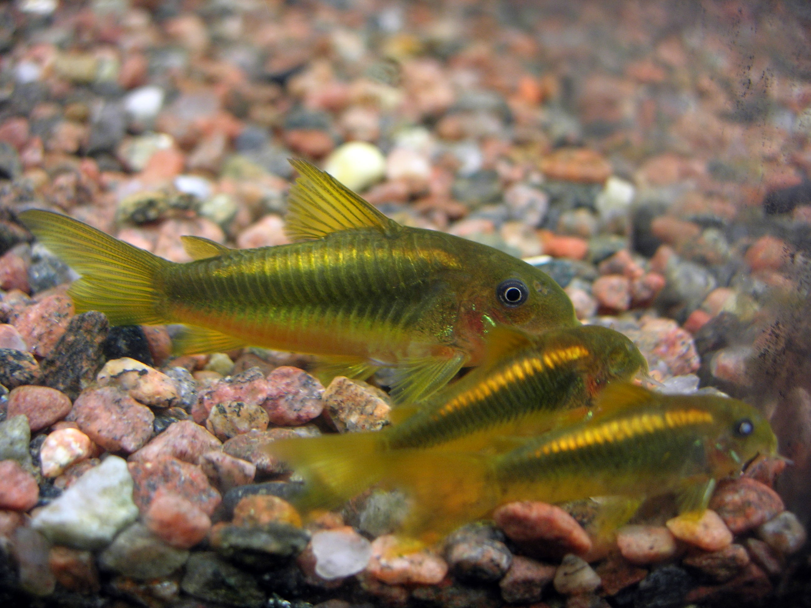 Three catfish of the Corydoras genus.